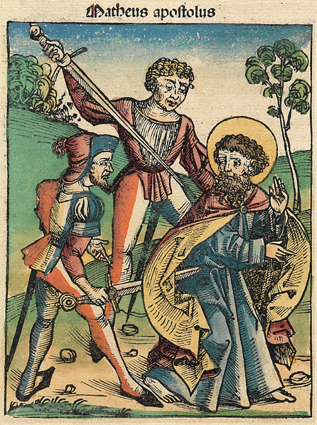 This is a part of a scan of an historical document: Title: Schedelsche Weltchronik or Nuremberg Chronicle